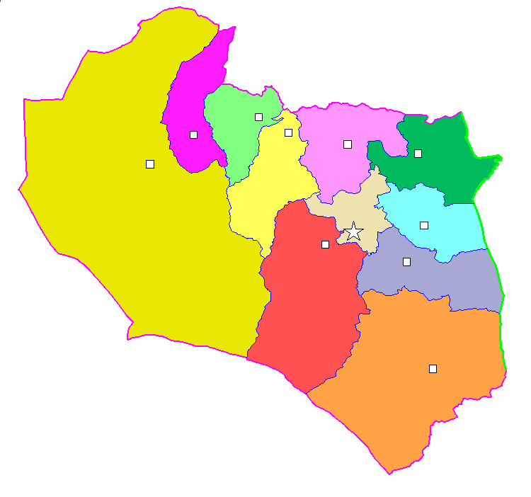 Map of South Khorasan Province with its counties.